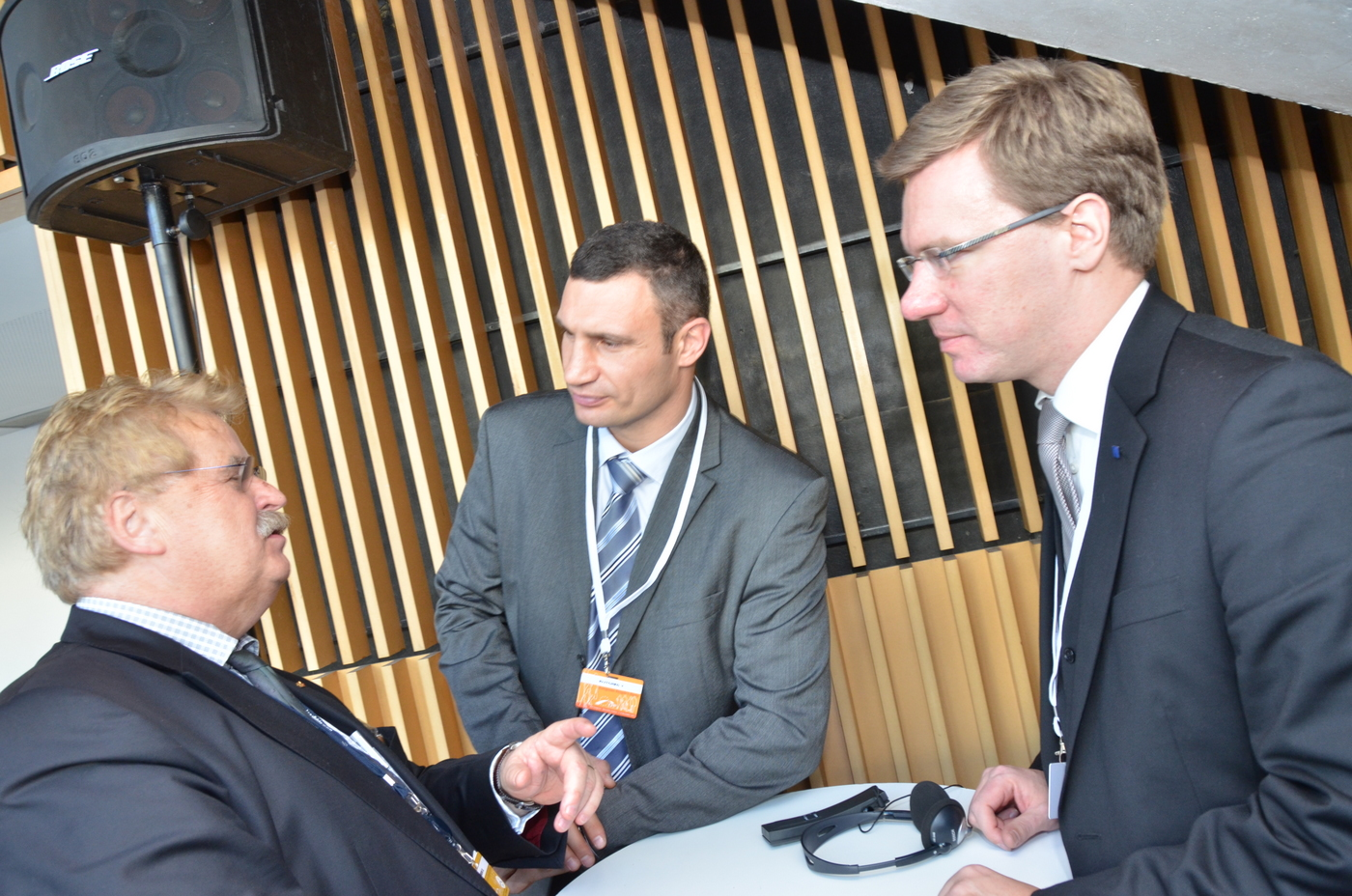 Vitali Klitschko at the EPP Congress Marseille 2011